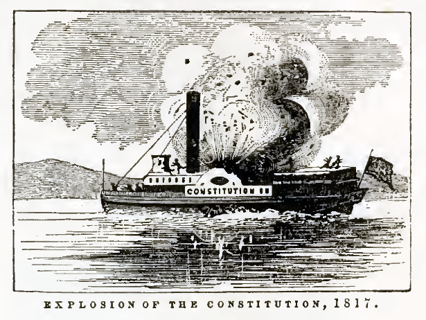 A depiction of the steam boat Constitution, the boiler of which exploded and claimed all eleven hands on board in 1817